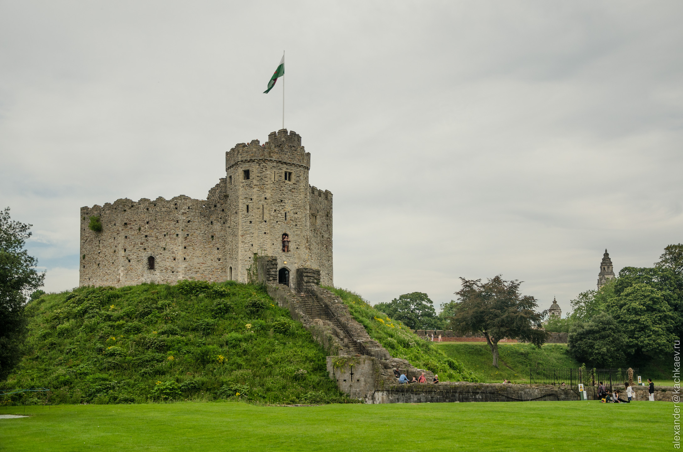 Cardiff castle (2012)